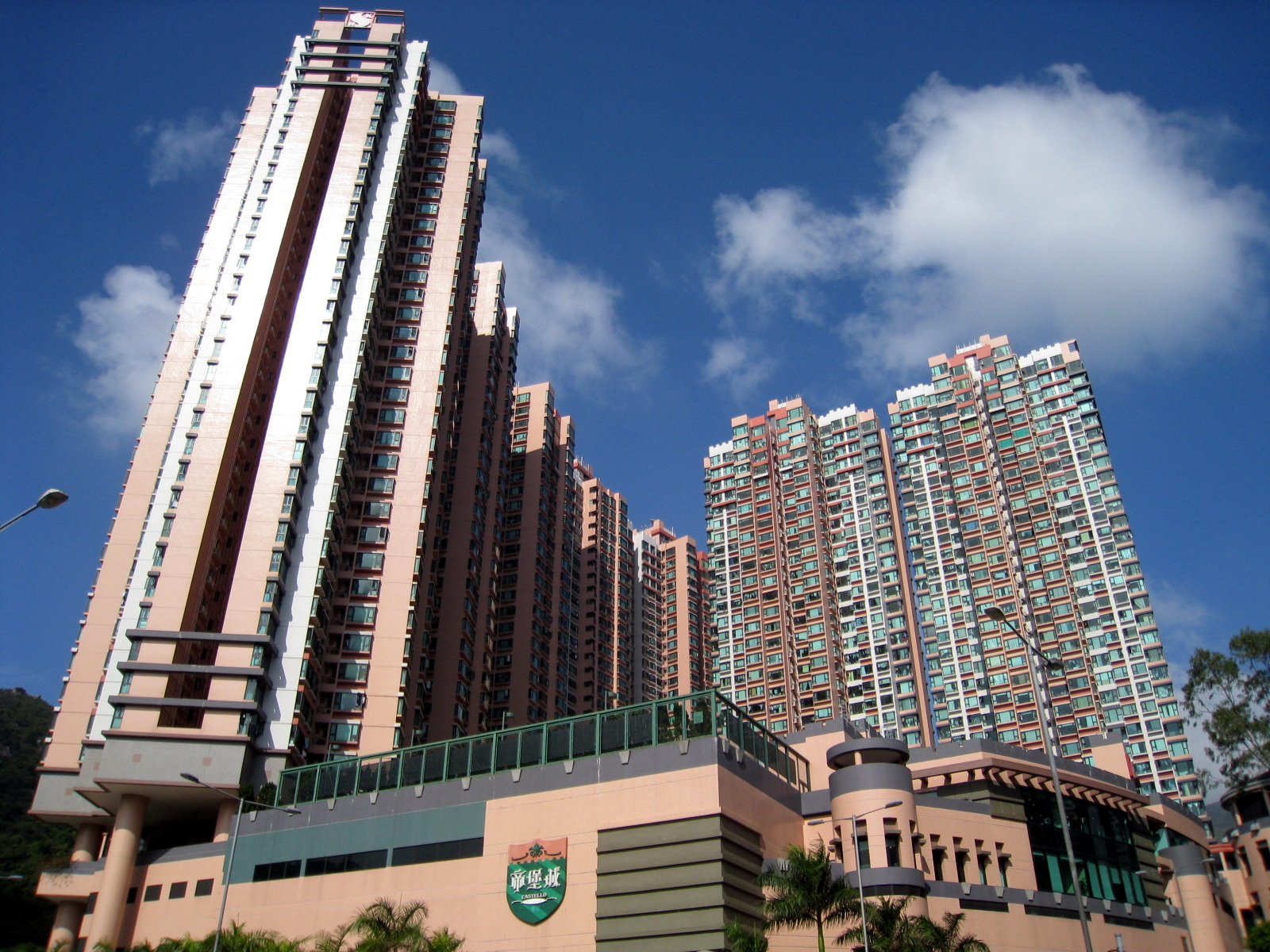 帝堡城 HK The Castello